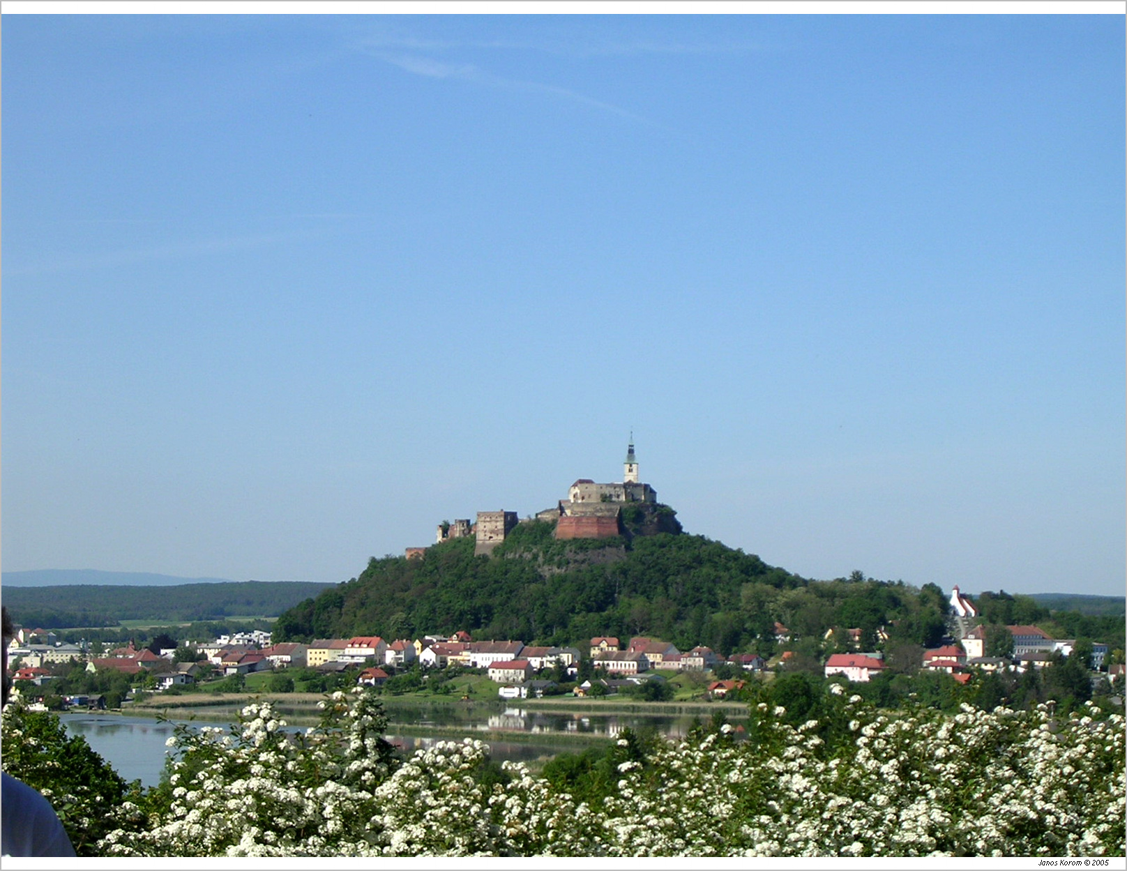 Güssing